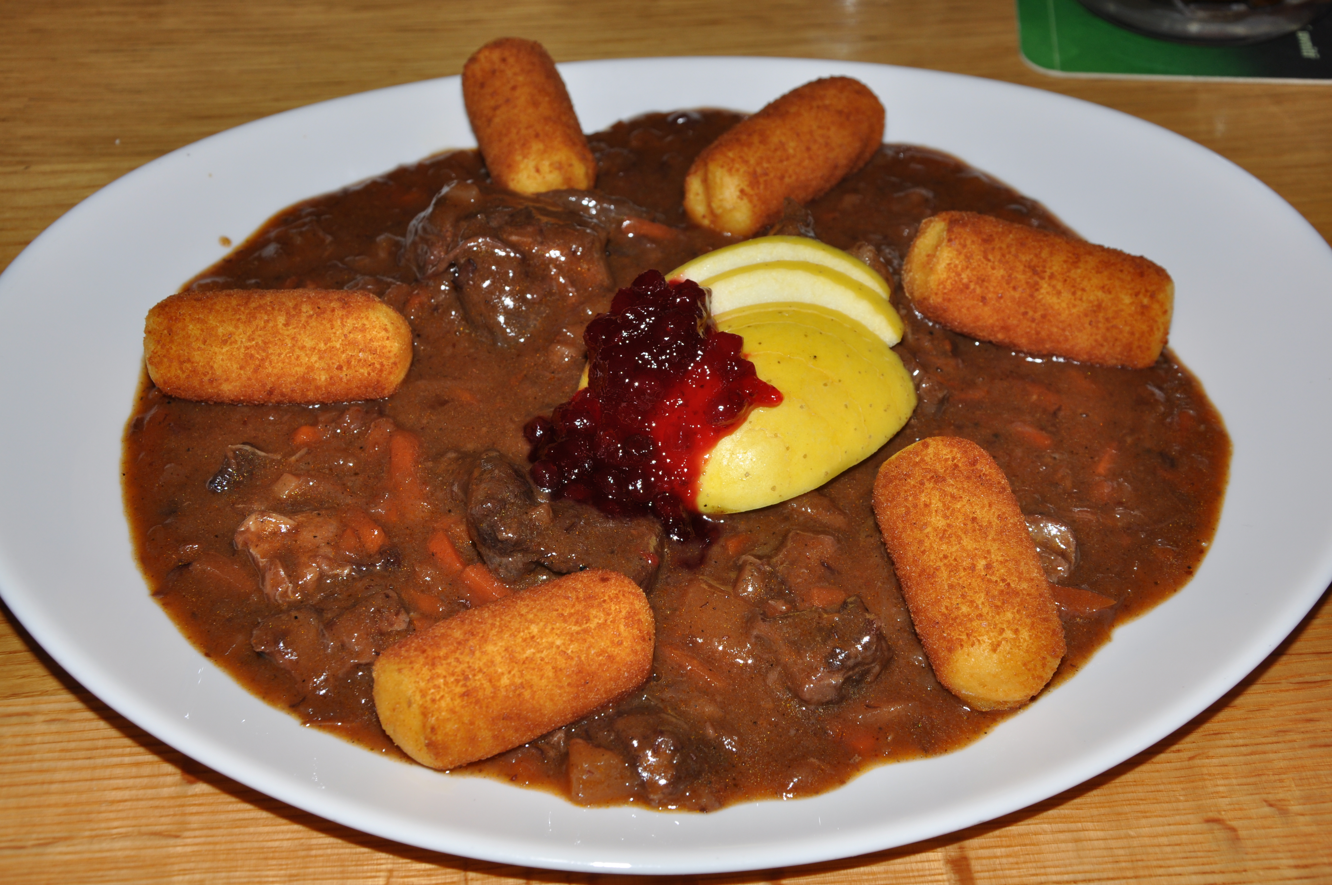 Venison goulash with apples, berries and potato croquettes